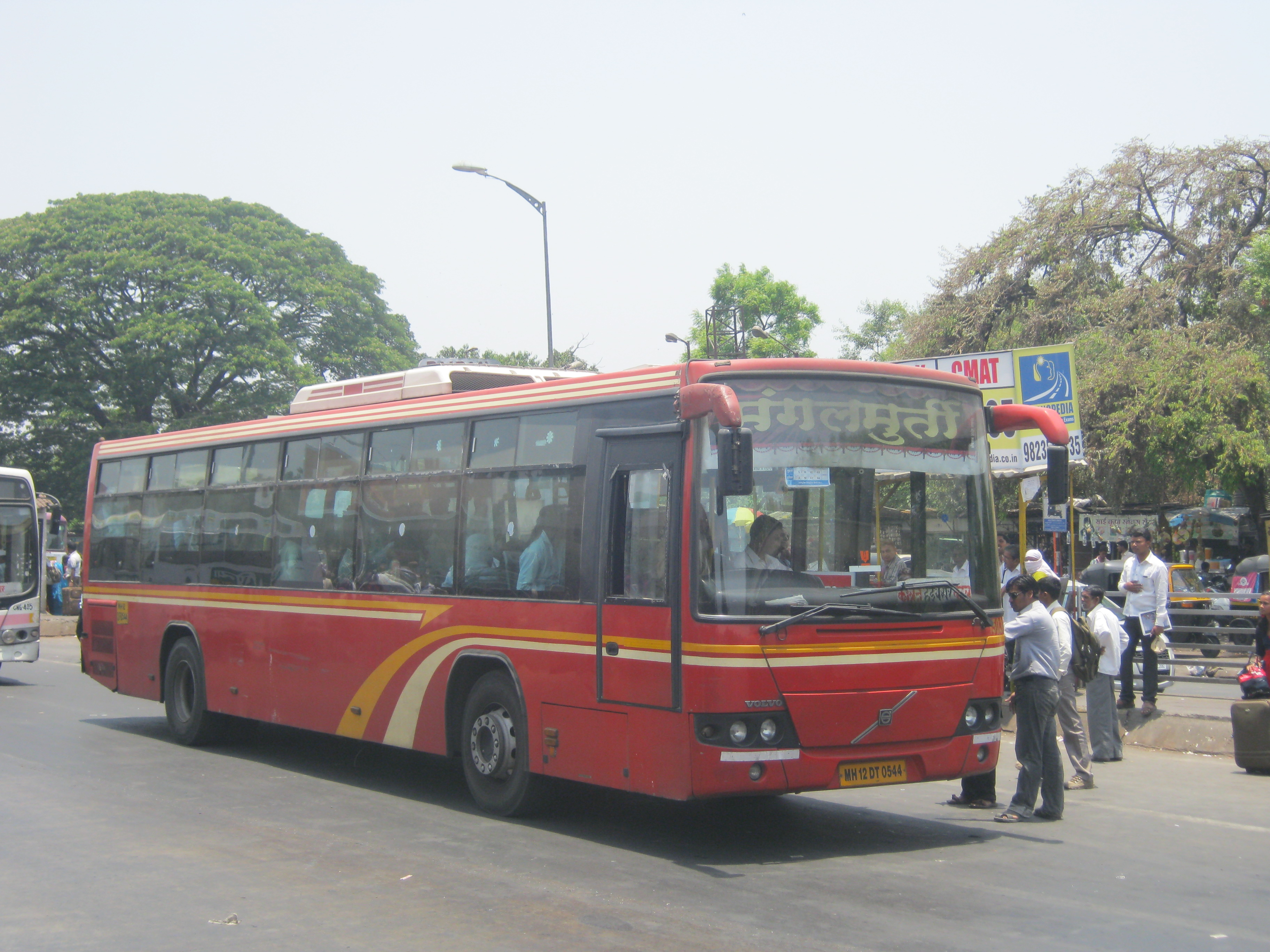 A PMPML Volvp at Swargate